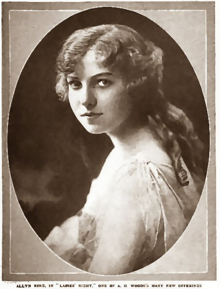 Actress Allyn King